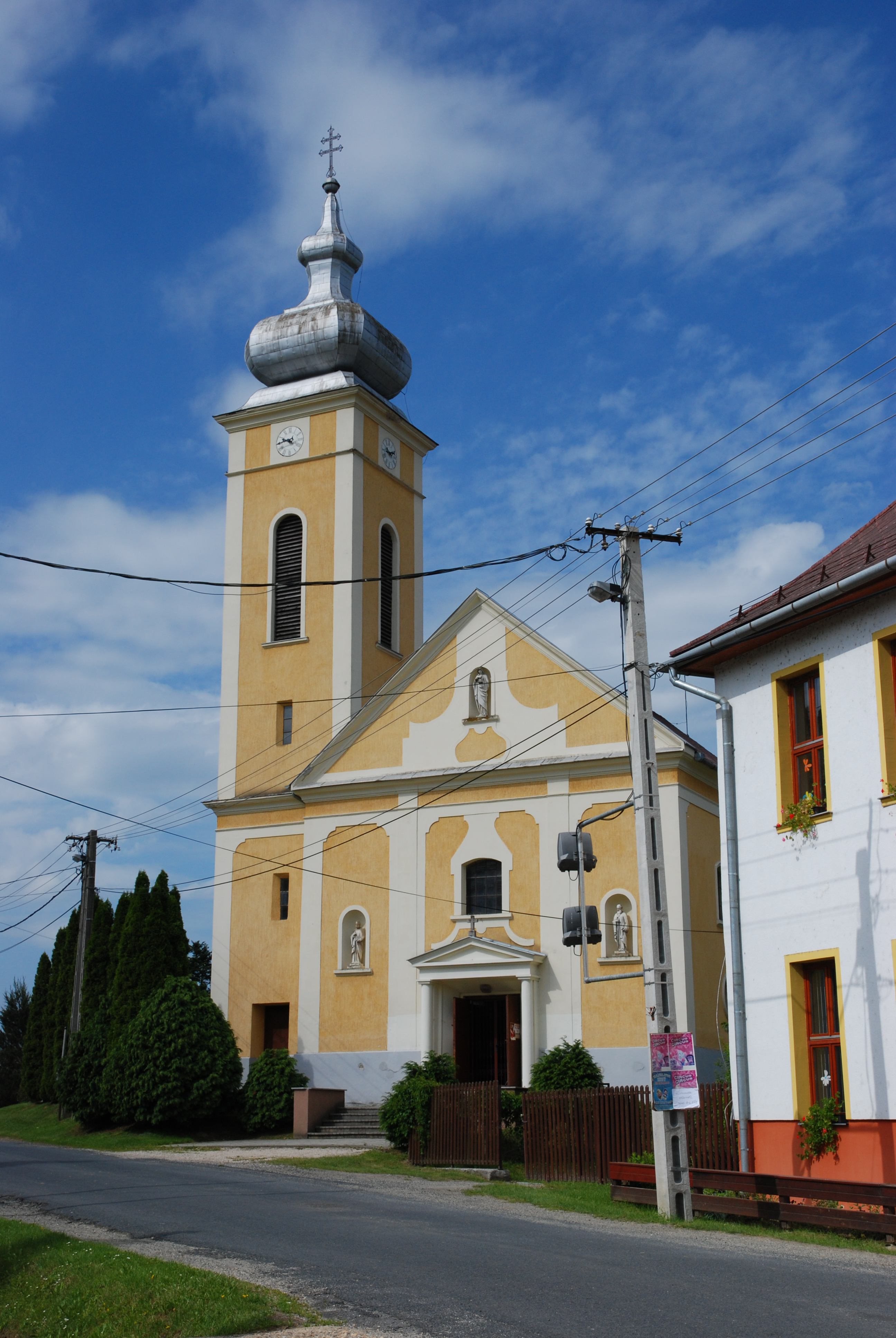 Church Felsőszölnök